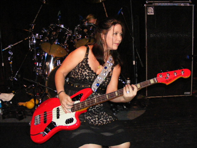 The Go-Go's at Antone's in Austin, TX. Kathy Valentine (bass)